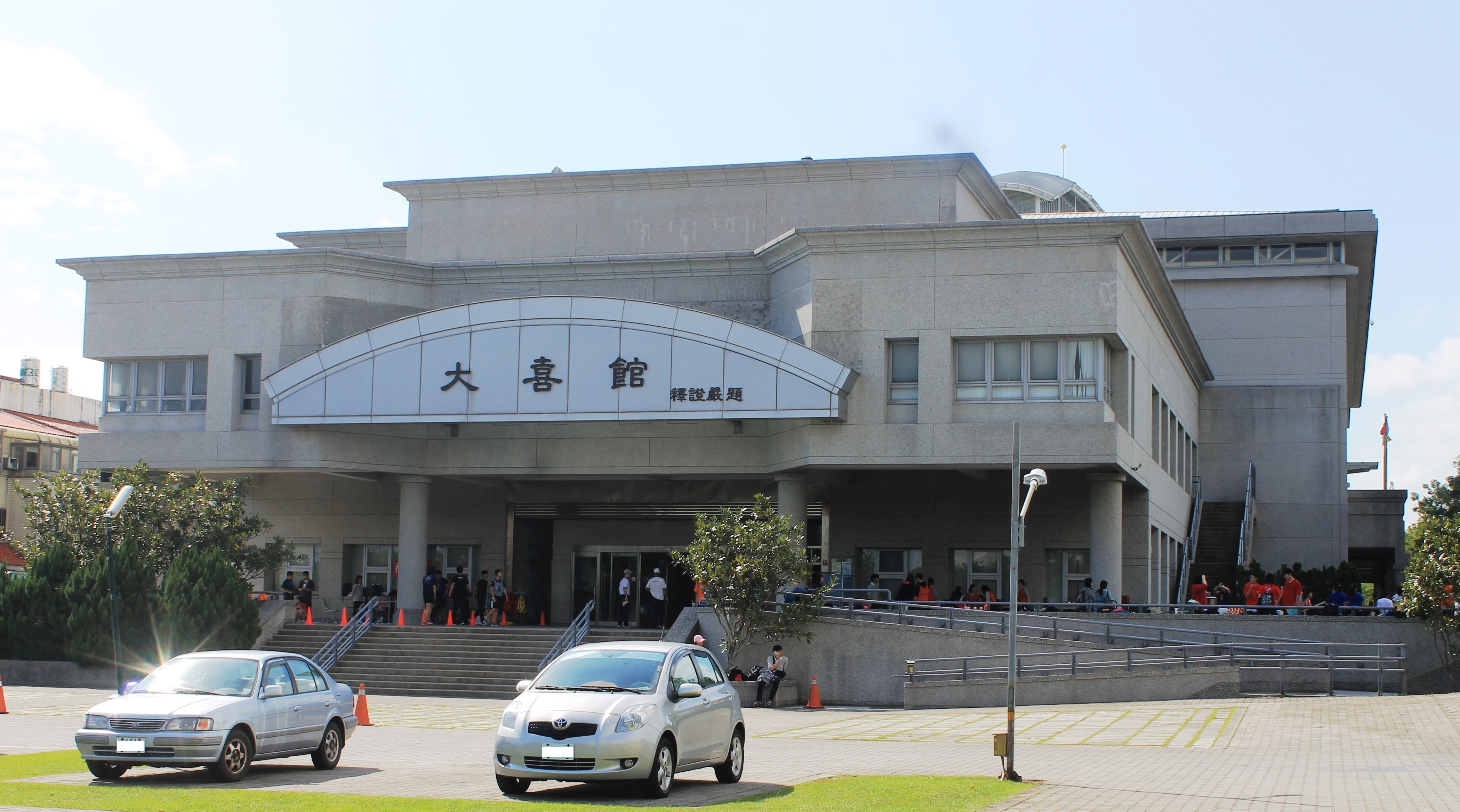 Da Xi building is the sports complex of Tzu Chi University.